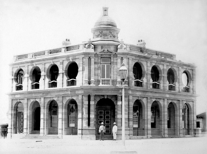 Post and Telegraph Offices, Warwick.